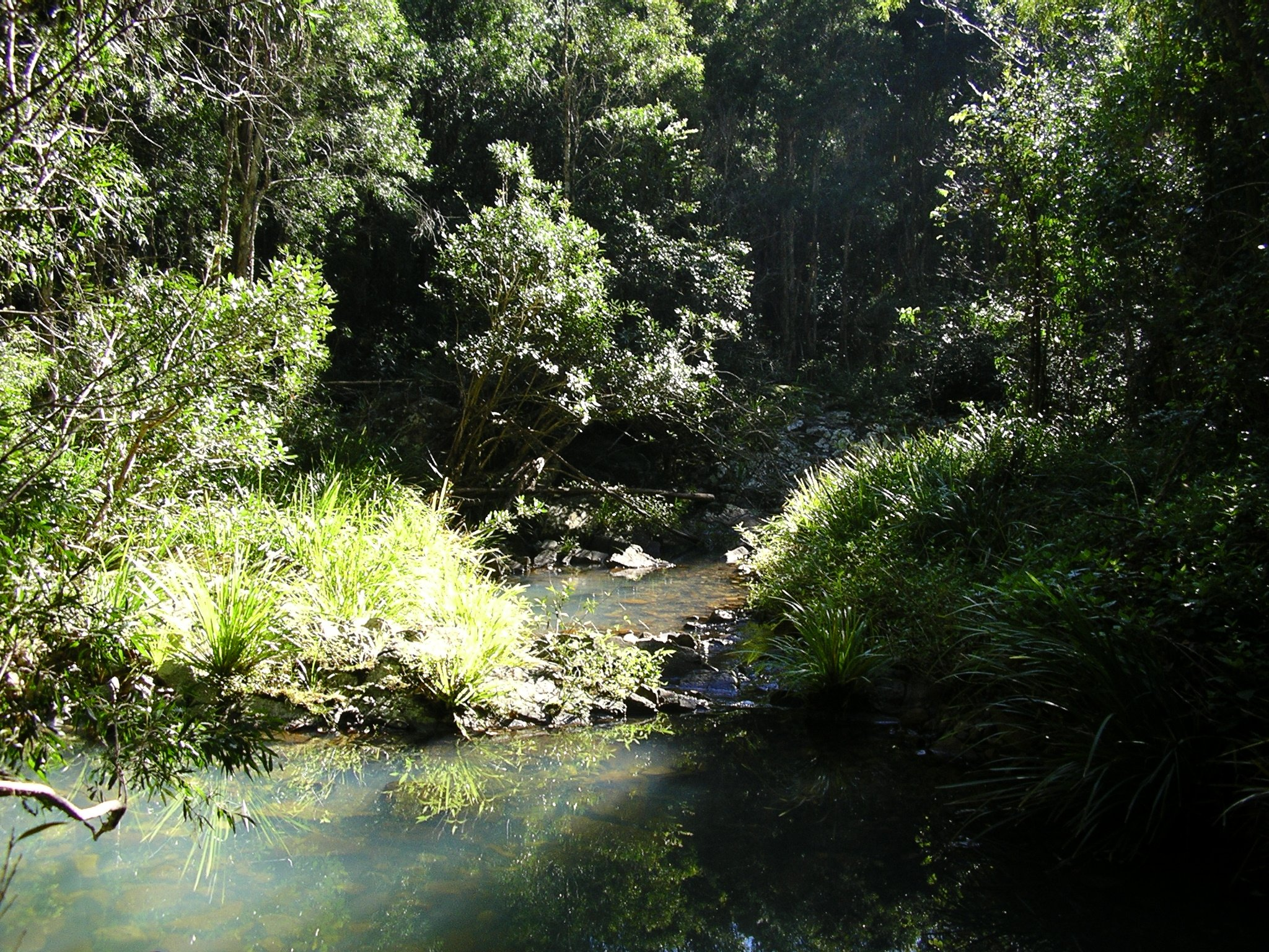 Creek in the The Glen Nature Reserve, taken by me.